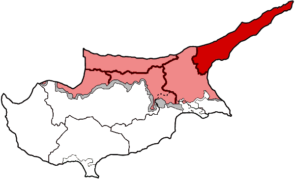 Locator map of the current de facto district of İskele (Trikomo) in Northern Cyprus.